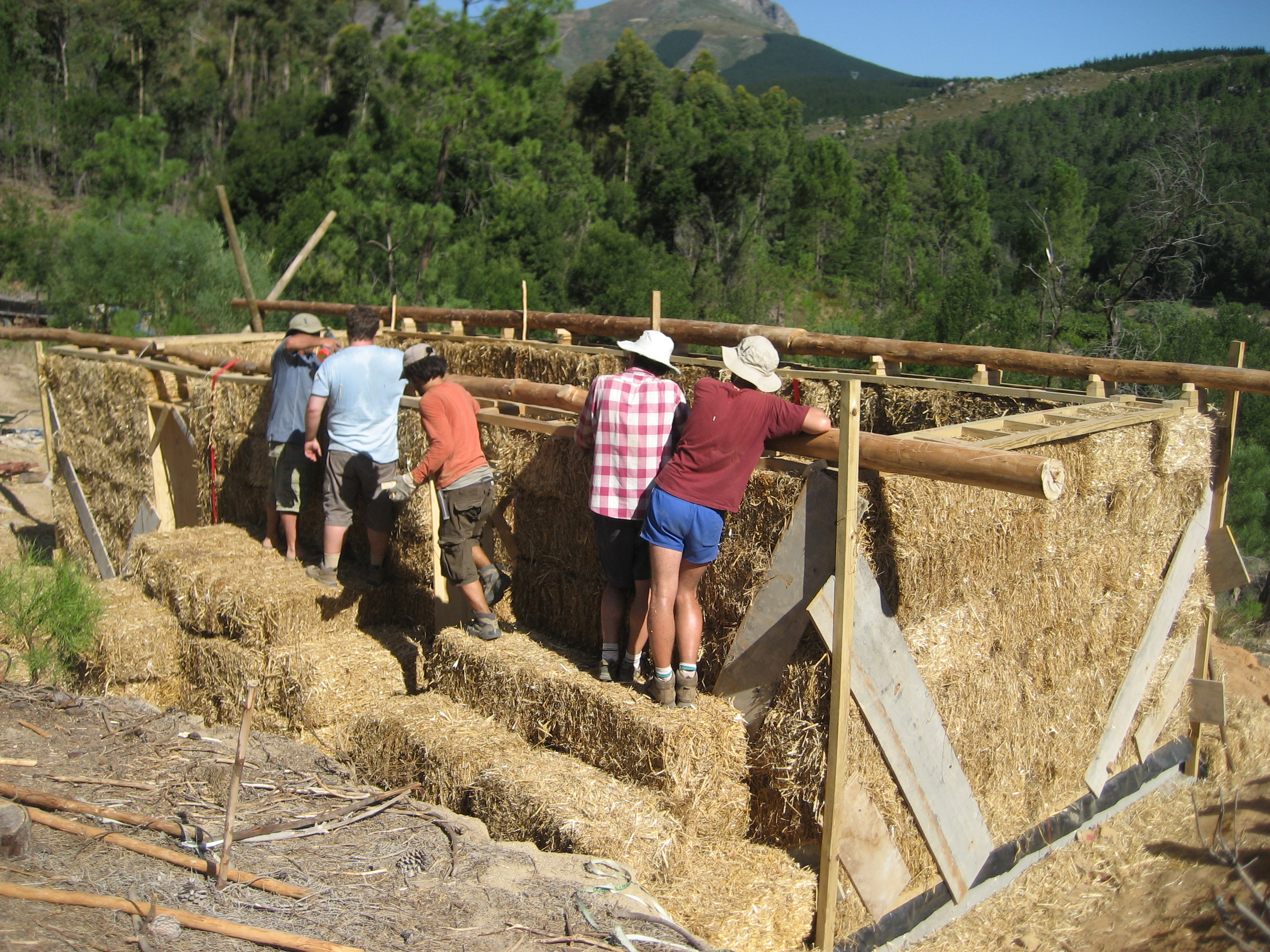 Building a straw-bale house